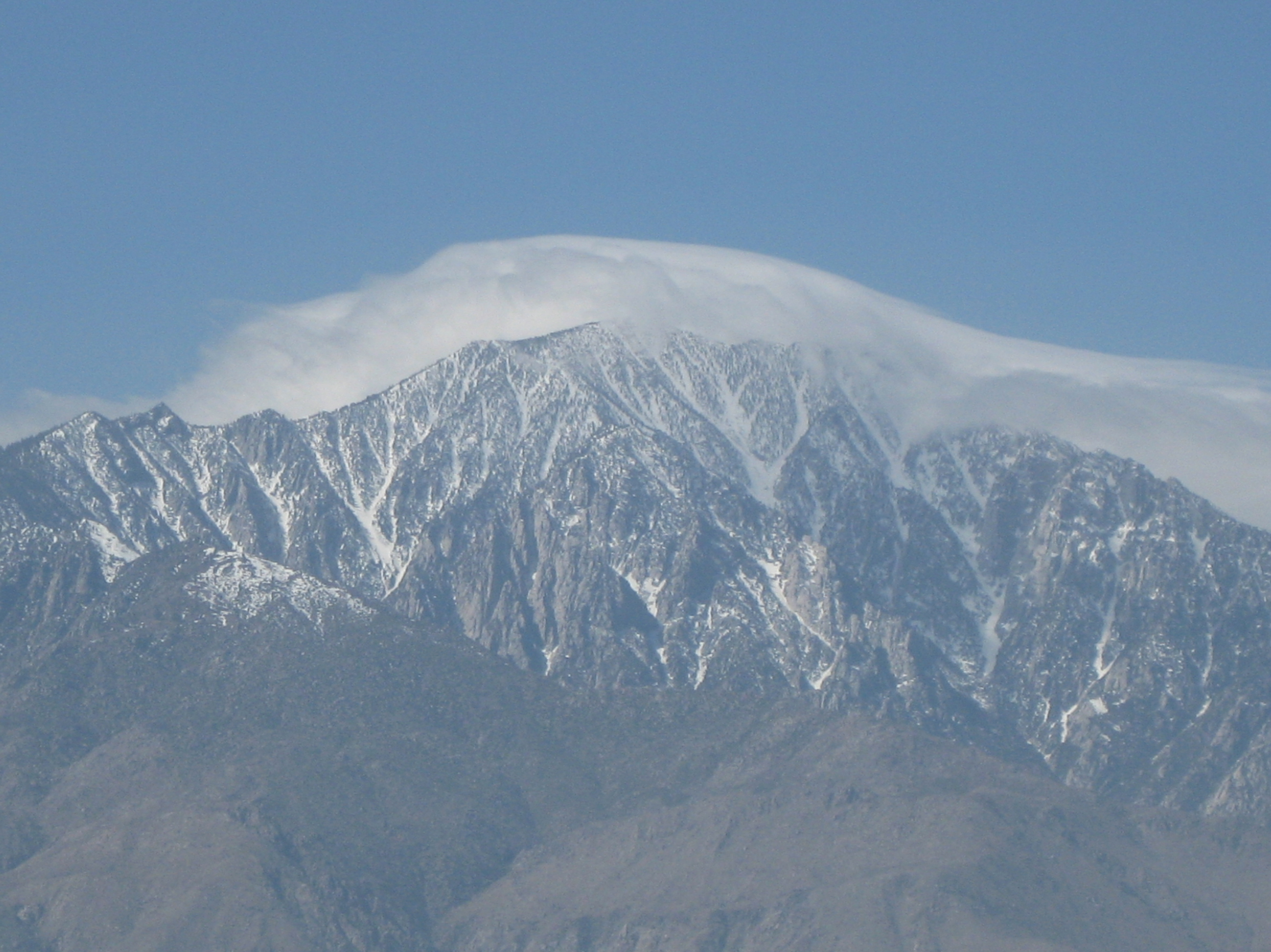 Foehn wall on top of Mount San Jacinto